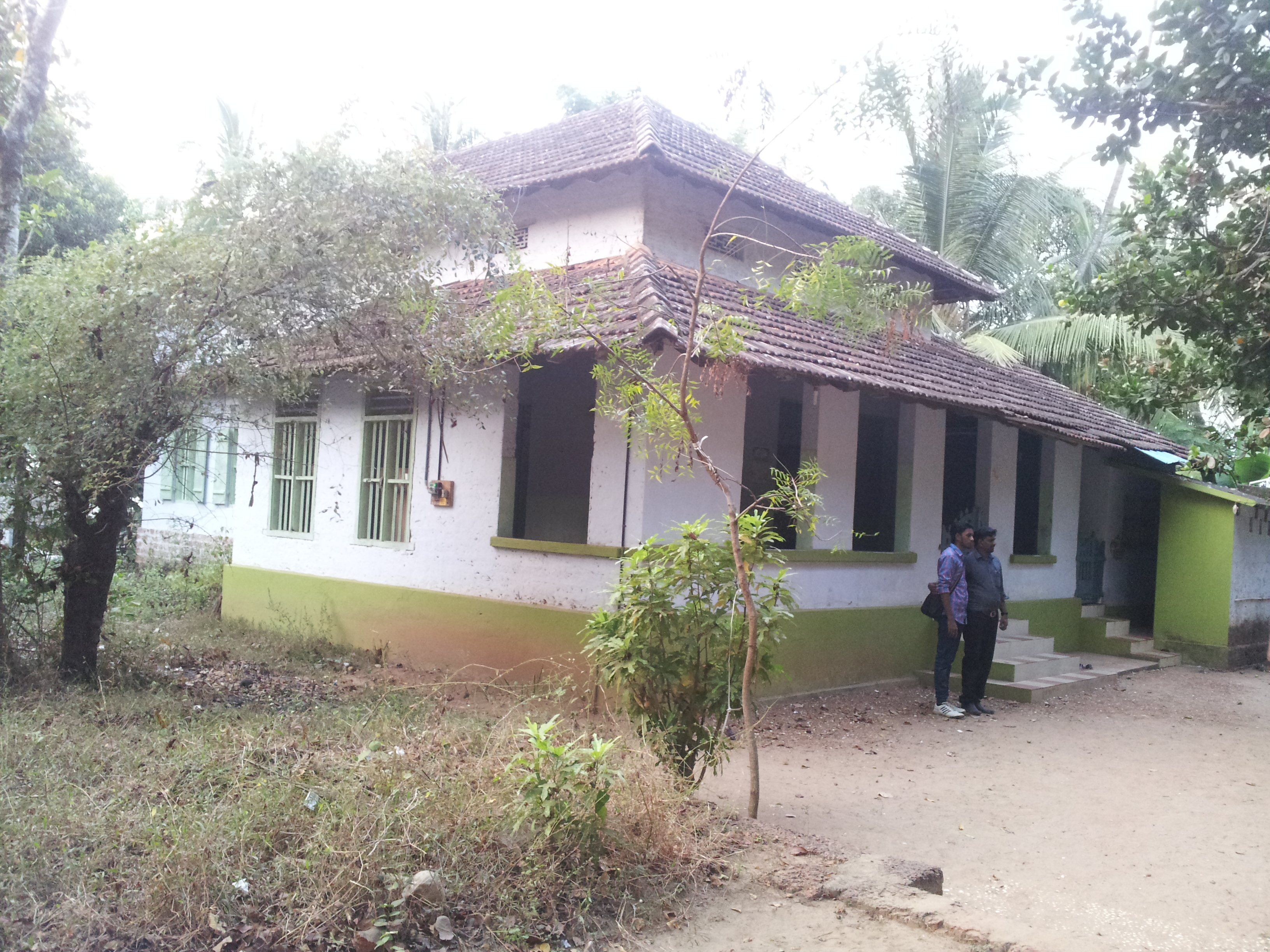 puzhakkara mosque, Chaliyam. It is one of the ancient mosque in kerala, constructed by Malik bin dinar and team